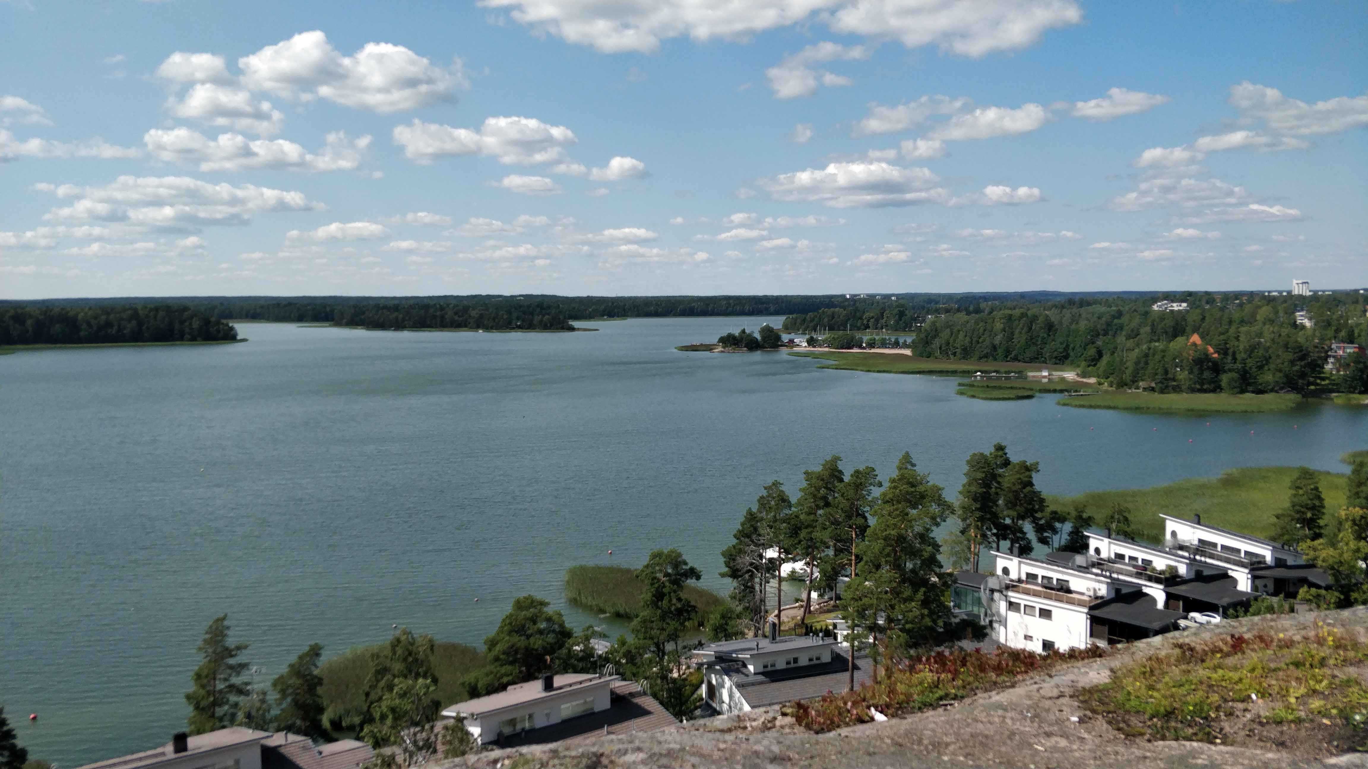 Kasavuori 19.7.2019